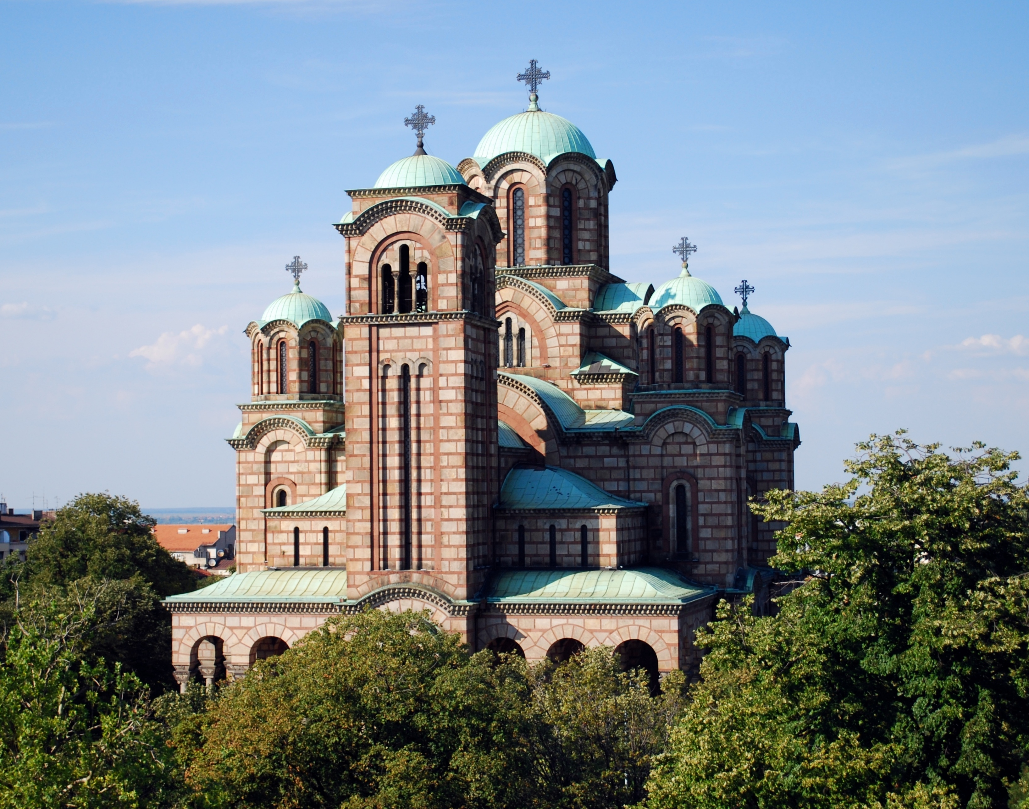 St. Marko Church in Belgrade, south - southwest view